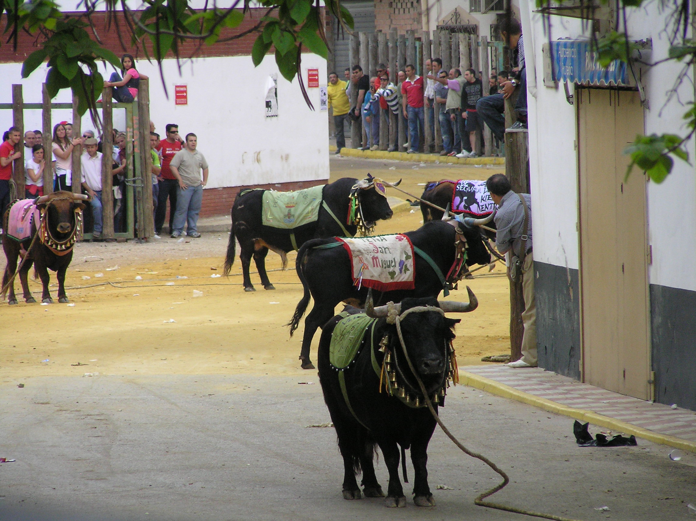 Varias reses bravas en la Plaza de San Marcos el 25 de abril